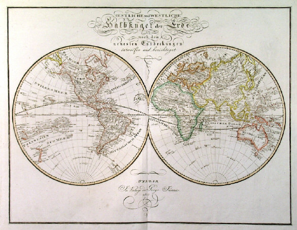 Double hemisphere world map in polar projection (Arctic and Antarctic) with elaborately engraved title.